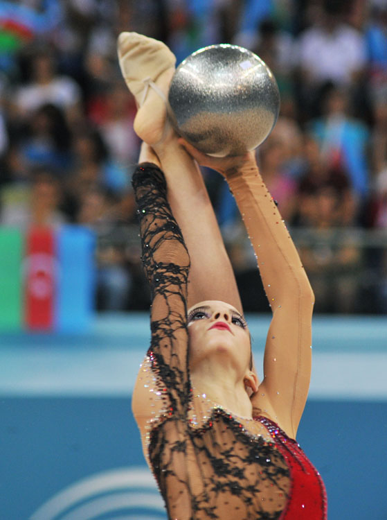 2014 Rhythmic Gymnastics European Championships